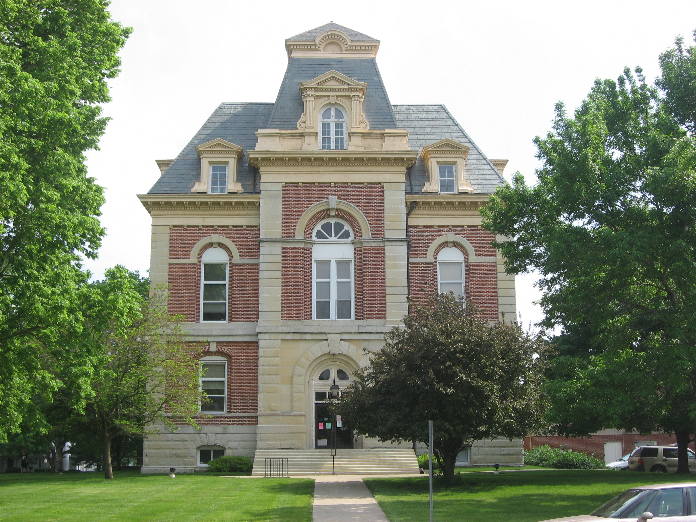 Front of the Benton County Courthouse, located at 706 E. Fifth Street in Fowler, Indiana, United States. Built in 1874, it is listed on the National Register of Historic Places.